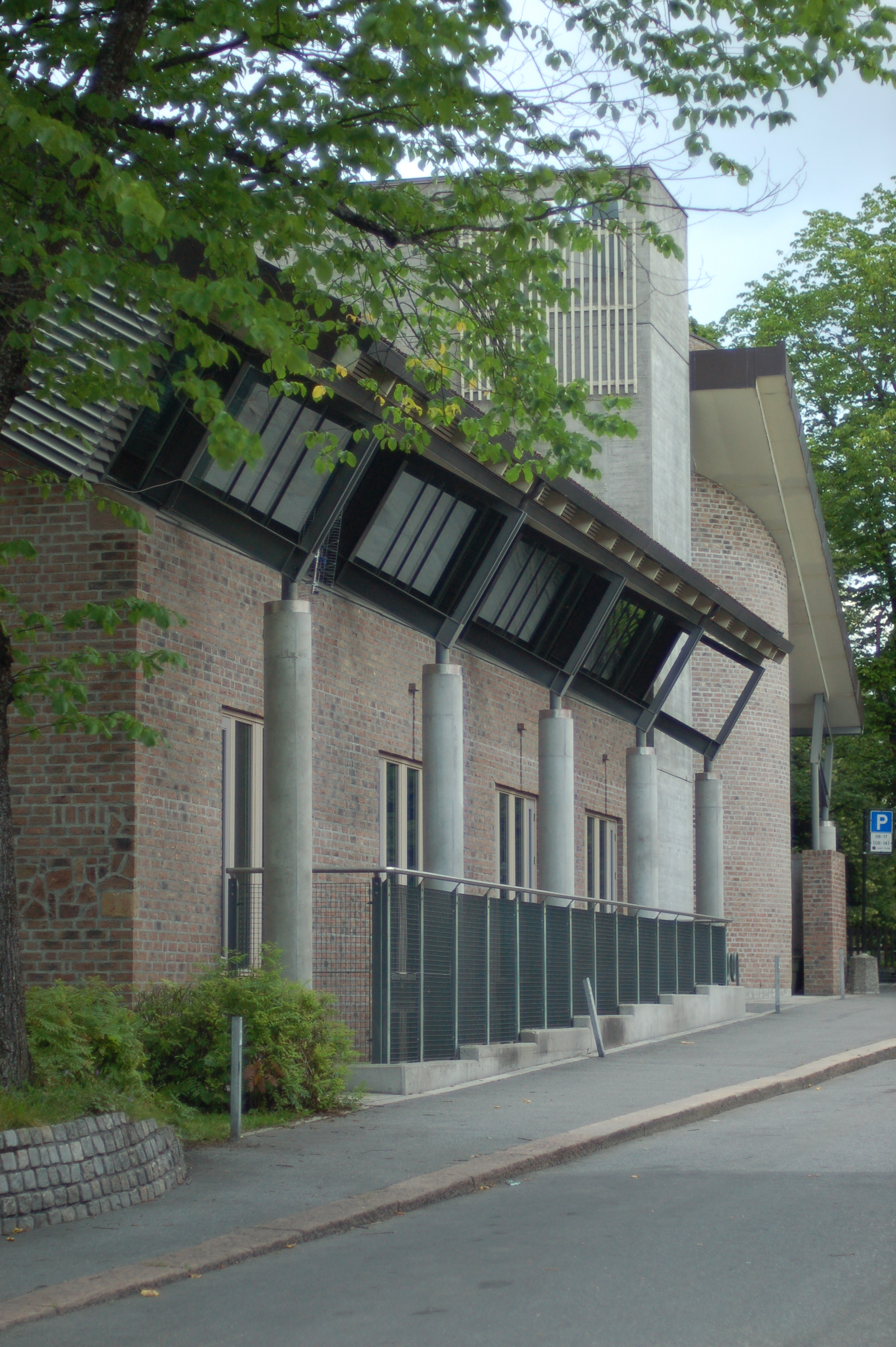 Kongsberg (Norway) city hall. Photo: Thomas Bjørndahl